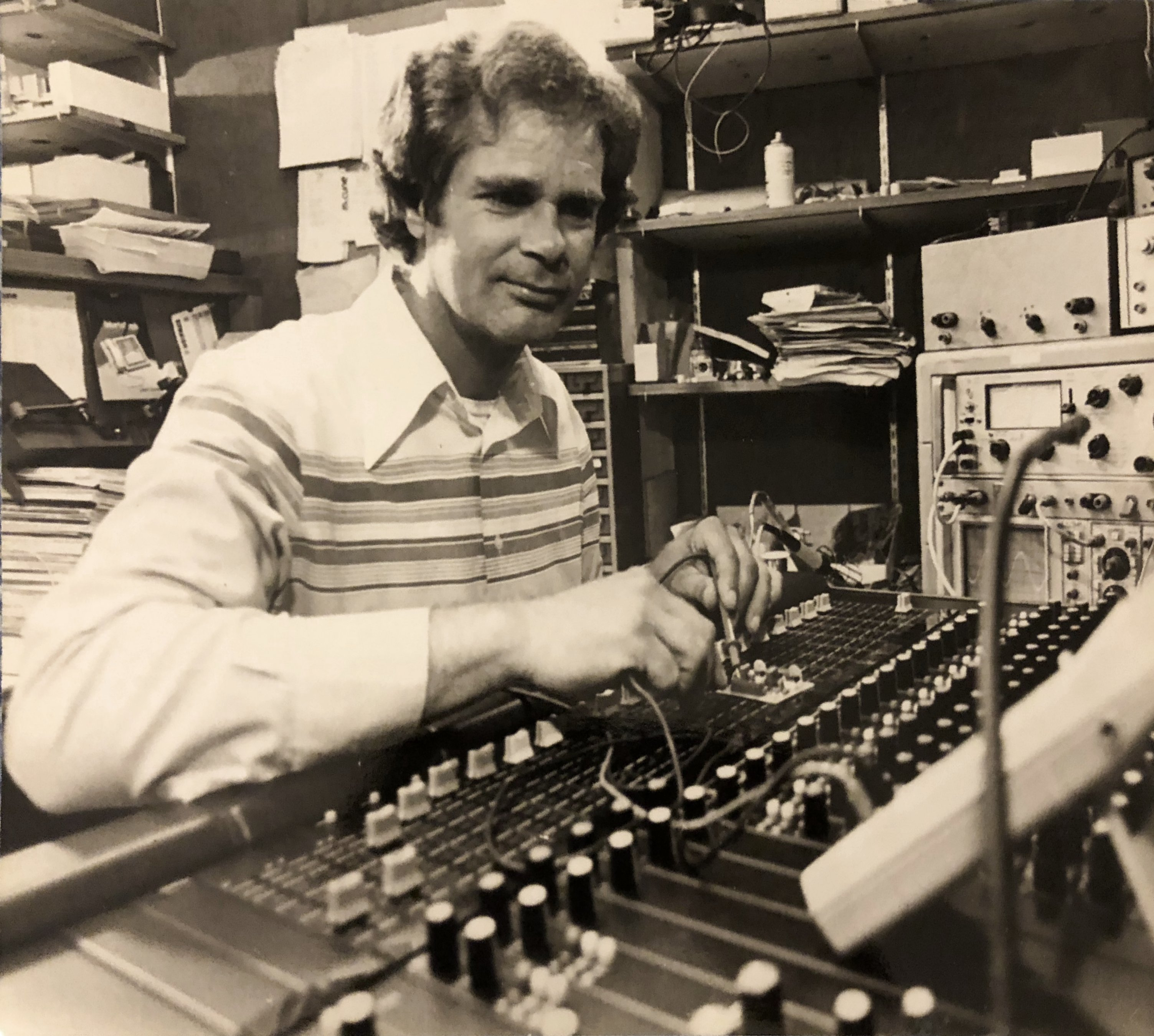 Bob Cavin measures an electrical component in the engineering department of McCune Audio Visual in San Francisco.